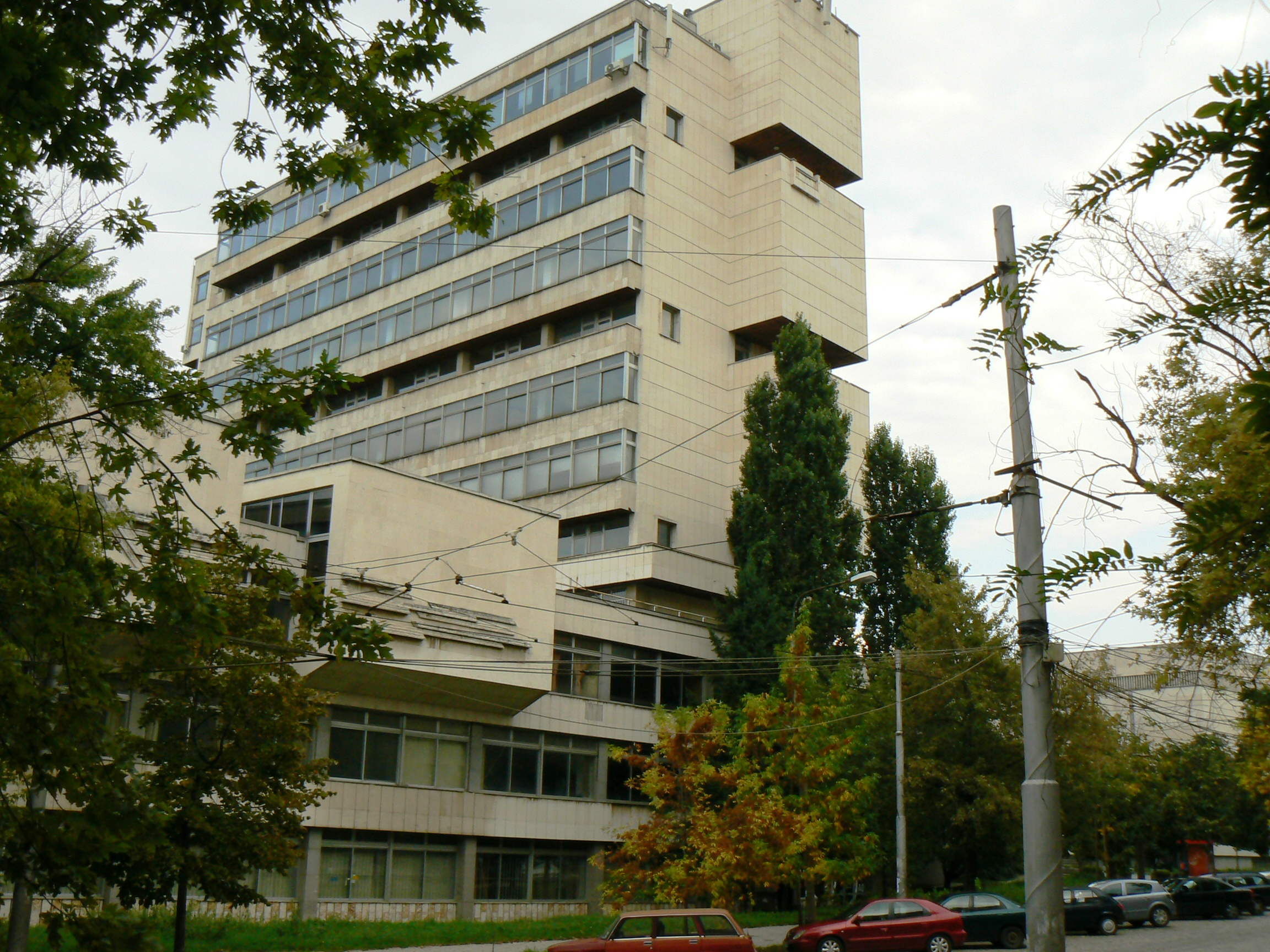 Sofia, University of Architecture, Civil Engineering and Geodesy